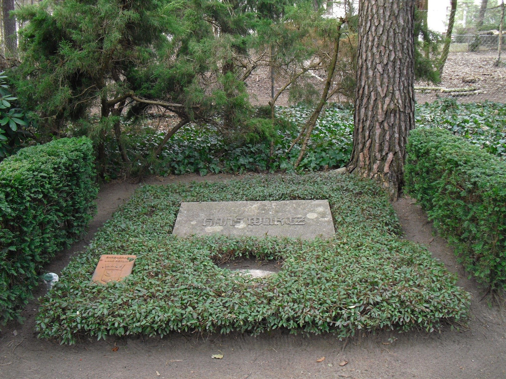 Grave of Hans Würtz, special educator for handicapped people, in Waldfriedhof Dahlem in Berlin-Dahlem